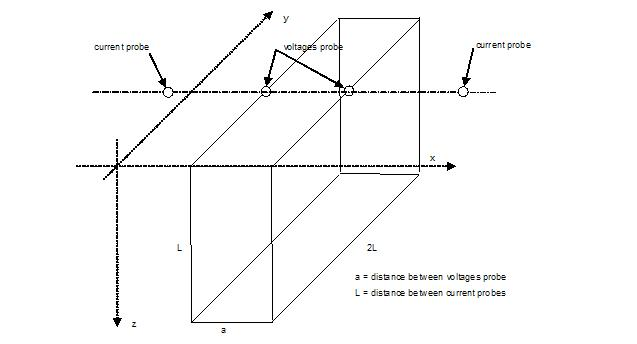 Description of the earth volume interested by the measurements